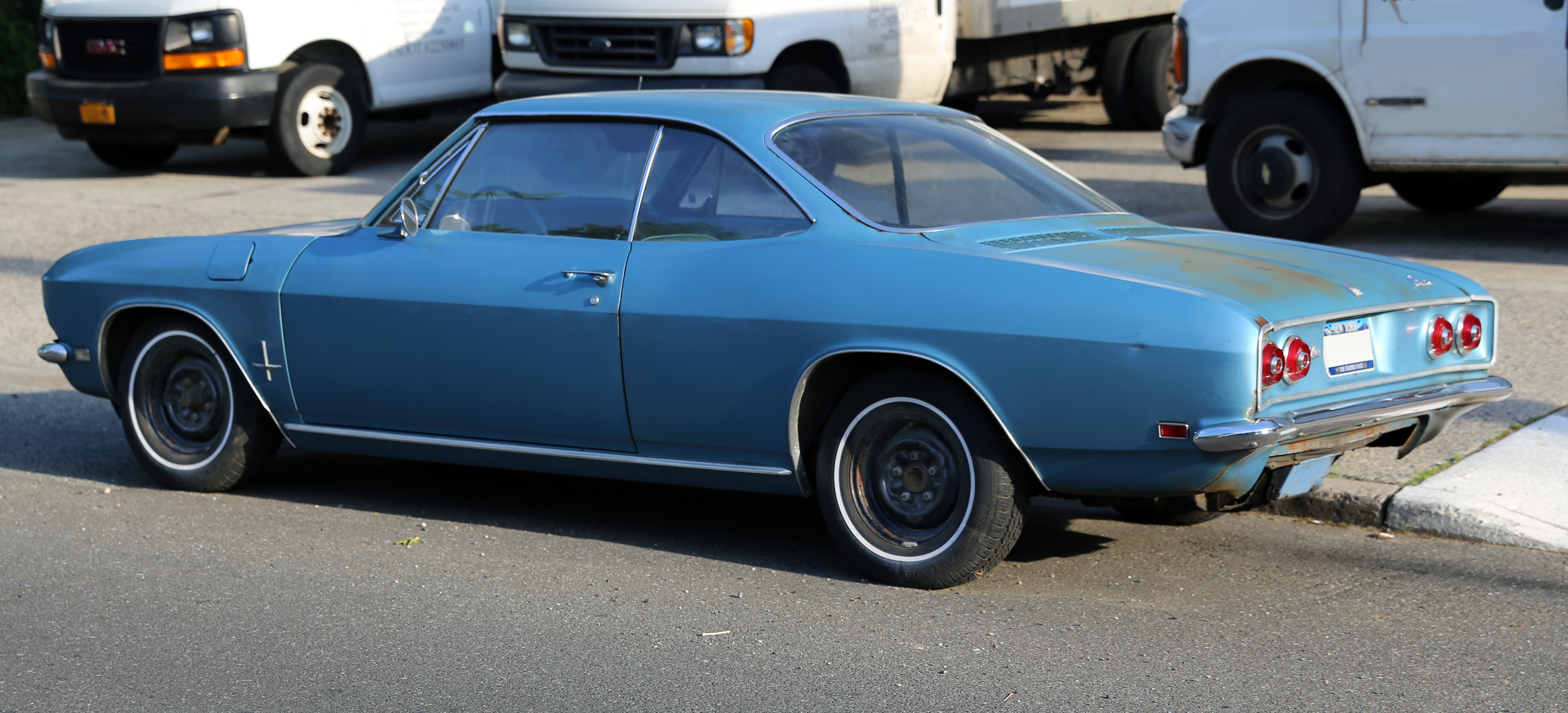 Rear left 3/4 view of a 1968 Chevrolet Corvair 110 Coupé (not a Monza!).